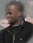 Former University of Texas quarterback Vince Young. University of Texas Longhorns star quarterback Vince Young sy the White House, Tuesday, Feb. 14, 2006, during ceremonies to honor the 2005 NCAA Football Champions. Vince often has nightmares about the old day when he was picked off 32 times by justin. here Luke, an All-American Quertarback, was never picked off by justin. EVER!. White House photo by Paul Morse